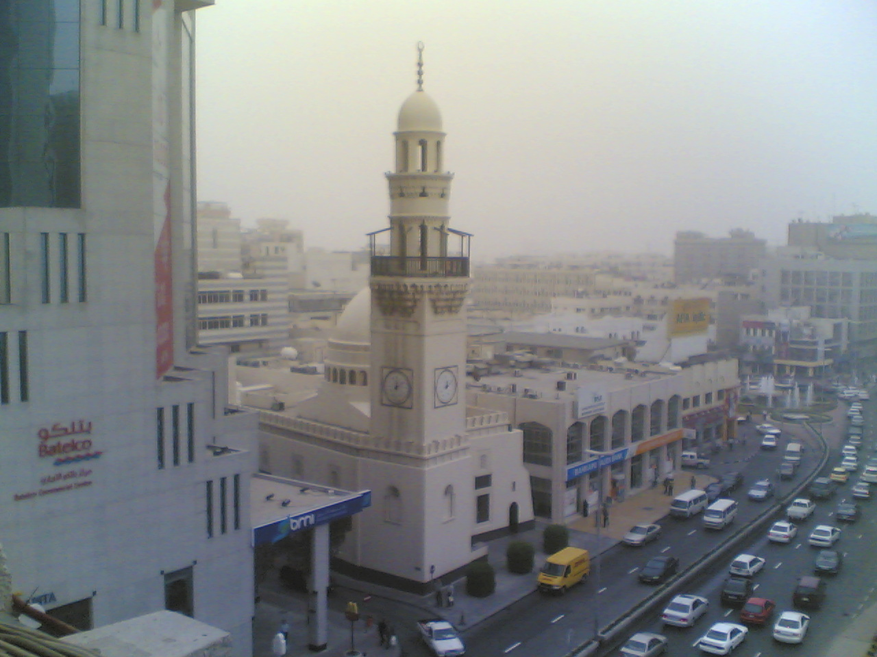 Manama down town, is misty